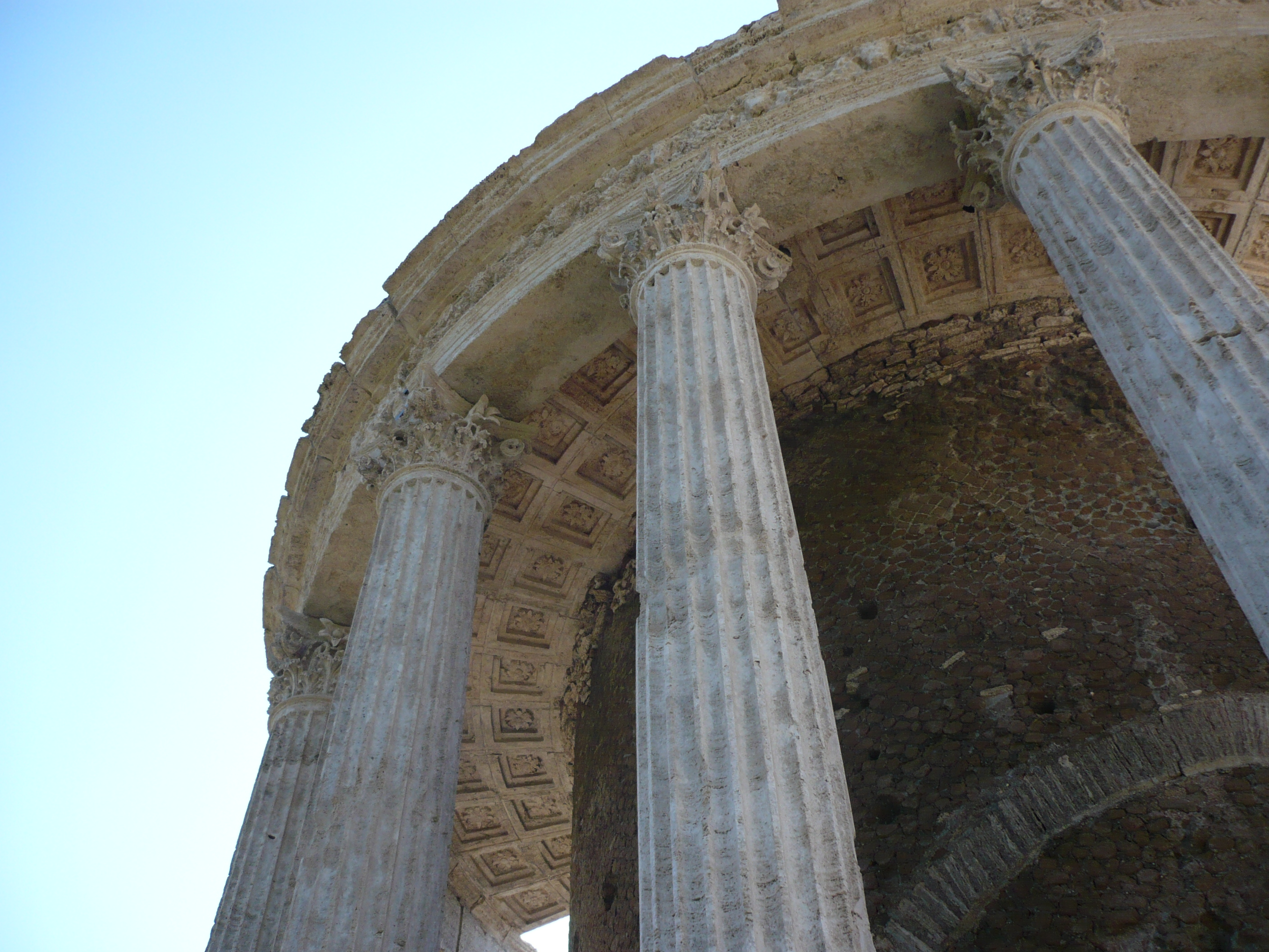 Temple of Vesta in Tivoli, Italy.